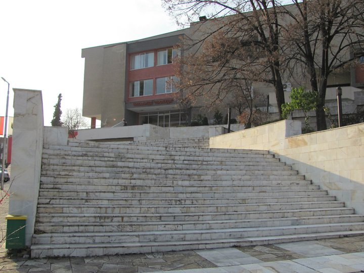 Library "Probuda" in the town of Ivailovgrad, Bulgaria